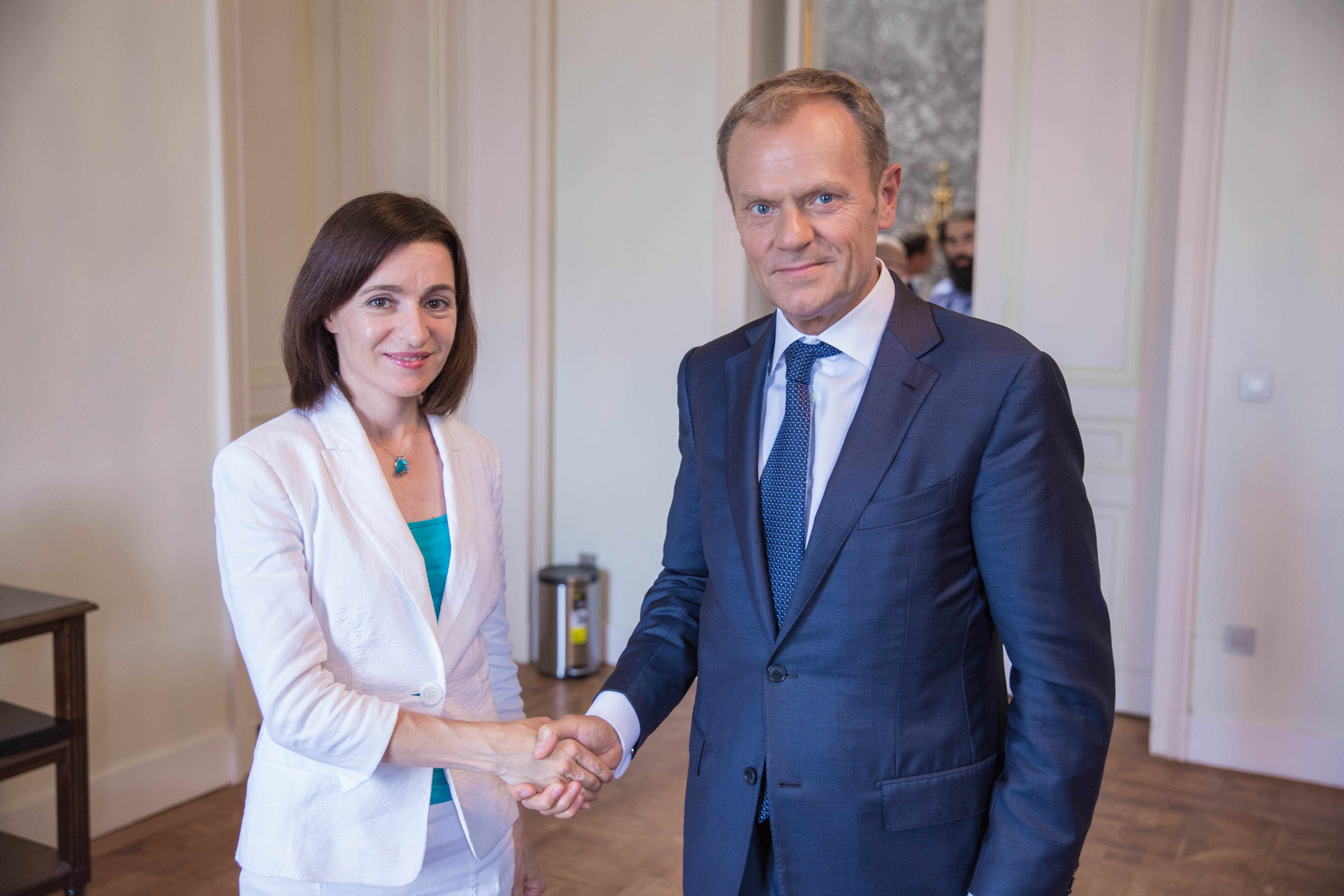 European People's Party Summit in Brussels, June 2017.